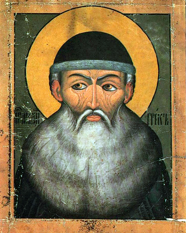 Maxim the Greek